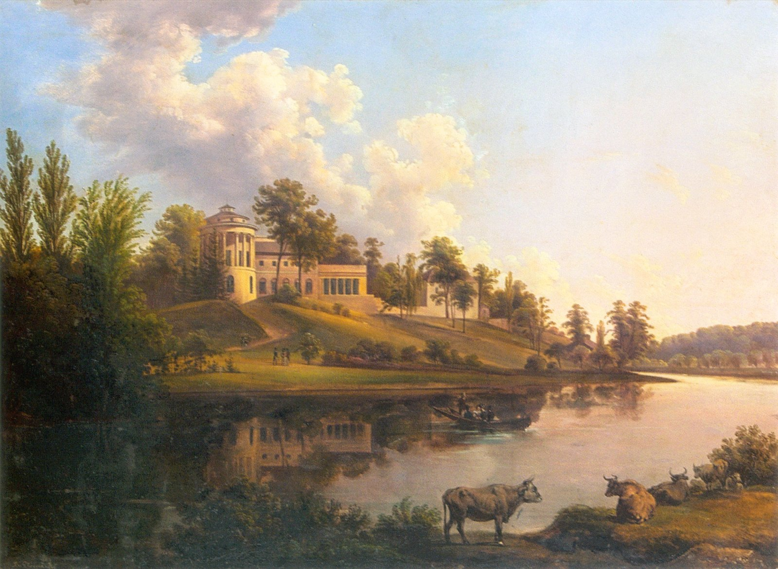 Palace behind river